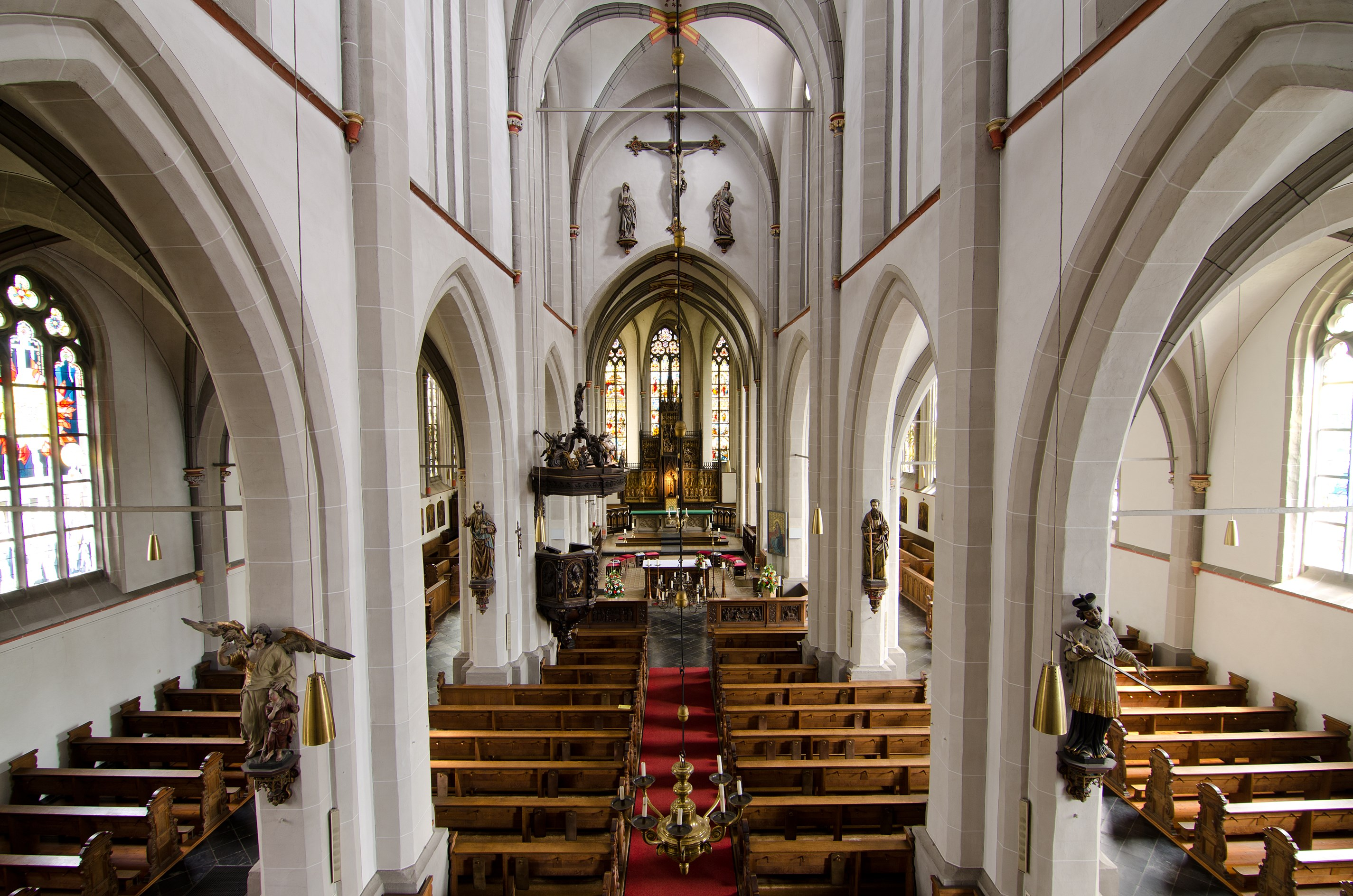 Rheinberg (North Rhine-Westphalia, Germany) – Catholic Saint Peter Church – interior view from the organ gallery This image shows a heritage building in Germany, located in the North Rhine-Westphalian city Rheinberg (no. 79). This photograph was taken with a Nikon D7000